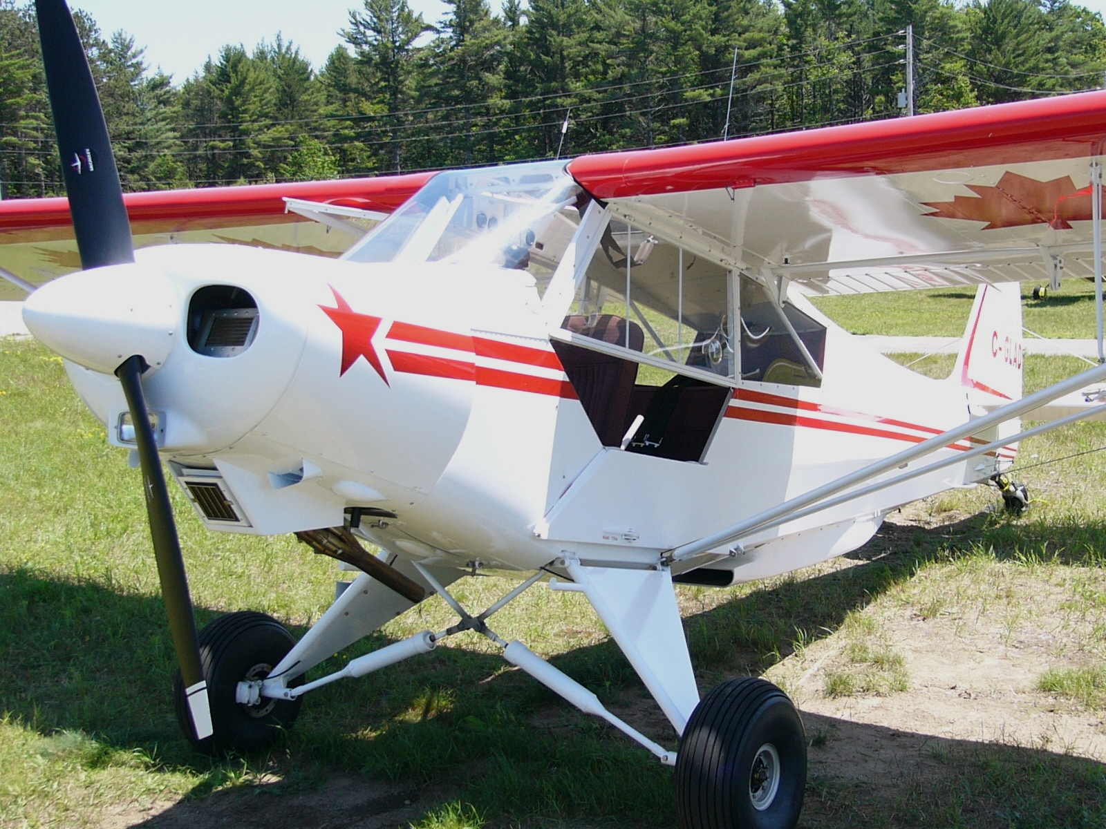 Custom Flight North Star at the Midland, Ontario, Canada Fly-in.